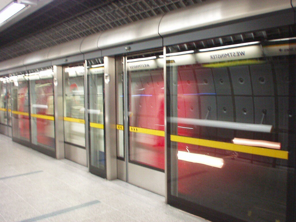 Jubilee line platform at Westminster tube station